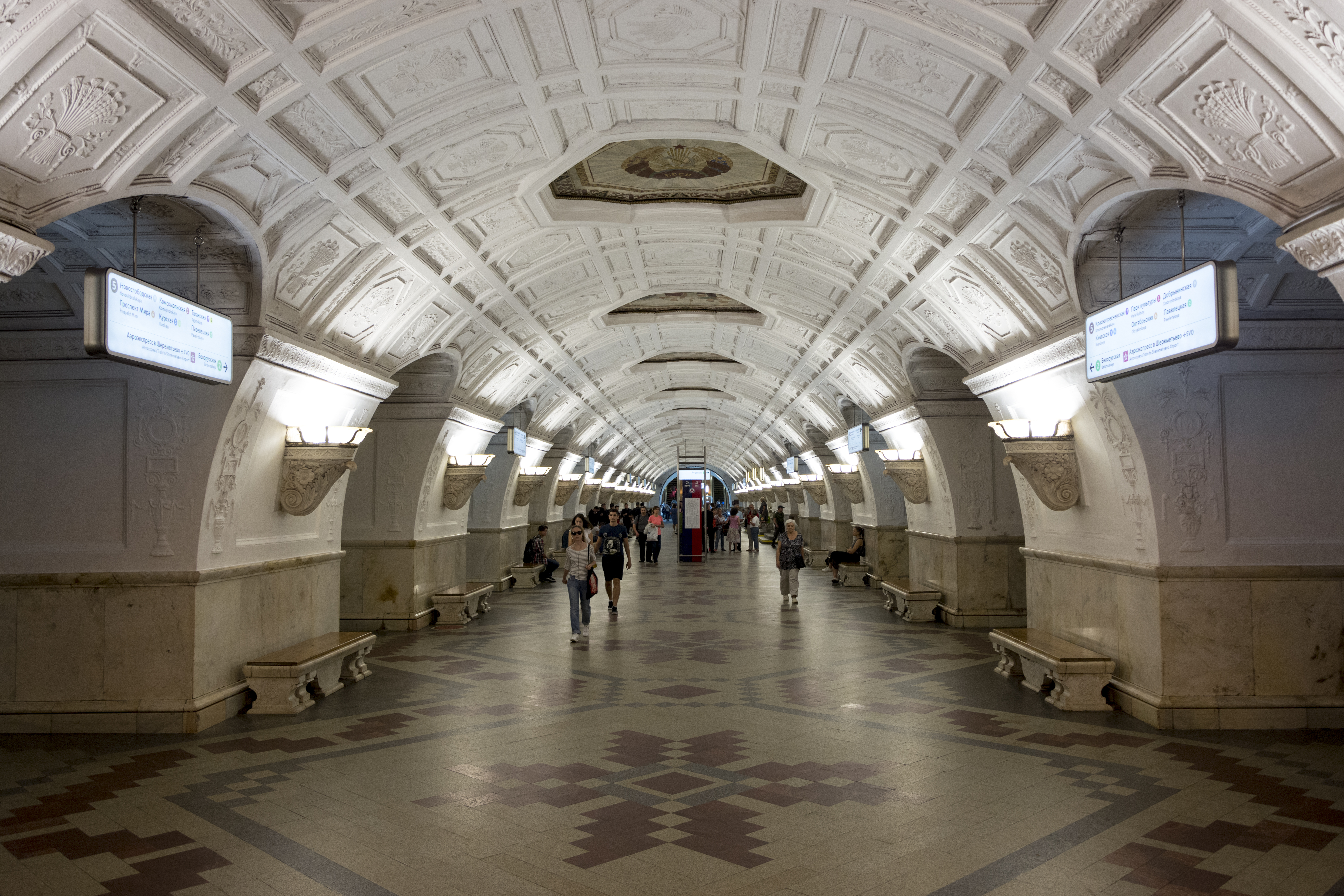 The interior of the Belorusskaya Station on the Koltsevaya Line of the Moscow Metro